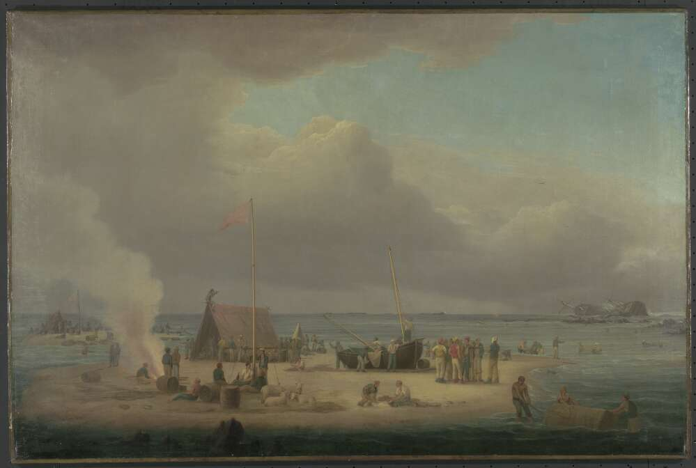 The East India Company's ship Cabalva, 1257 tons, Captain James Dalrymple lost in Cargados Shoal, near Mauritius, 7th July, 1818, on a voyage to China; Created 1820; Painting, oil on canvas ; 91 x 139 cm.